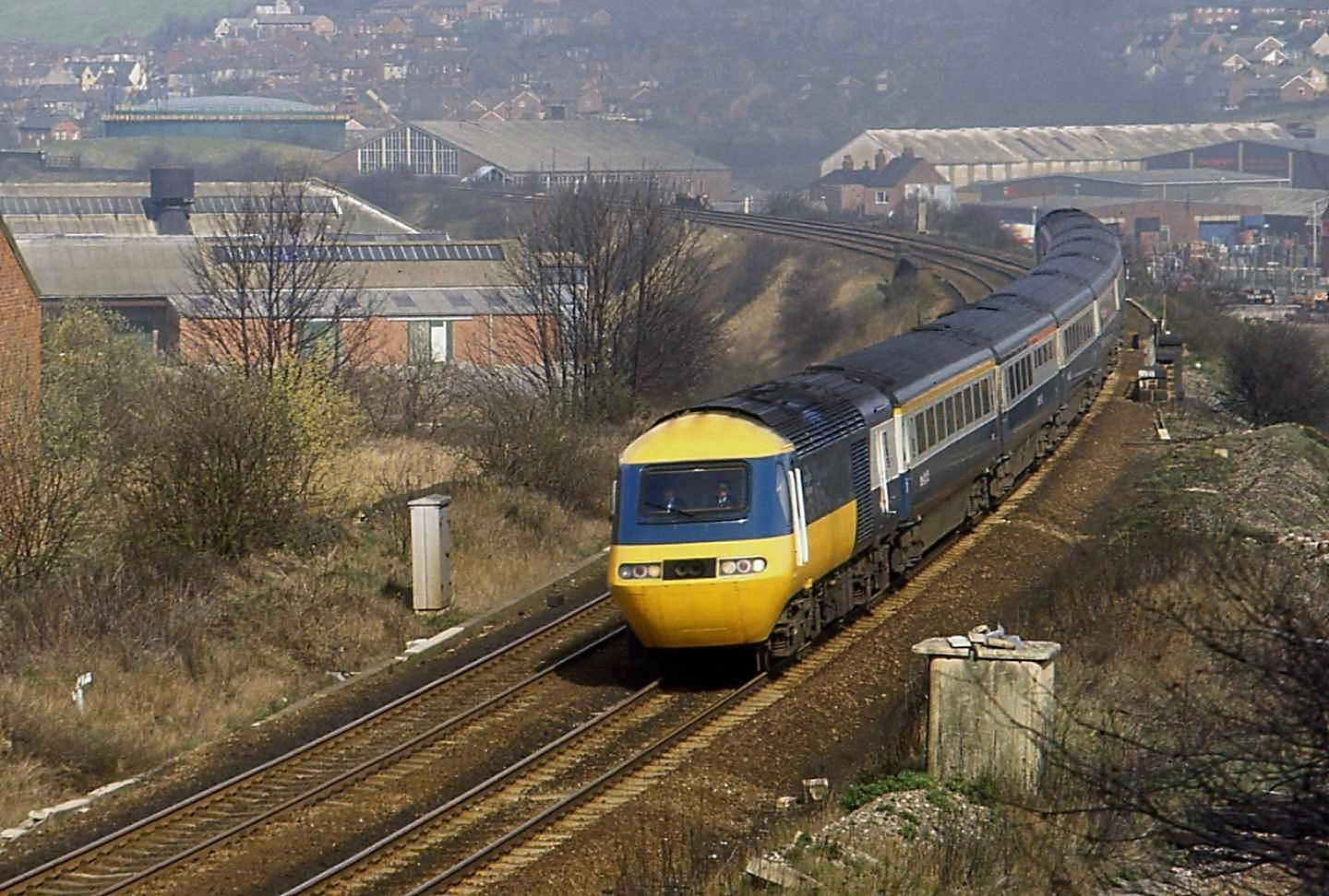 Tapton Jct